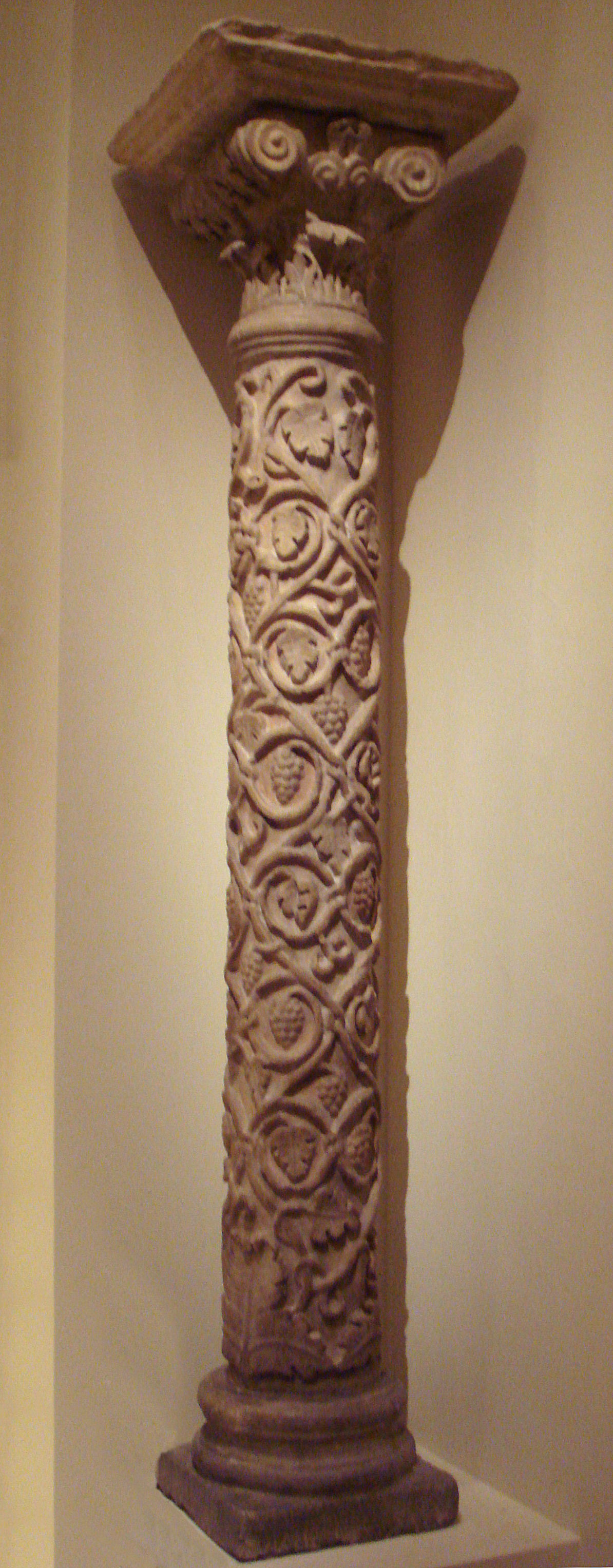 column_from_Notre_Dame_de_la_Daurade_Toulouse_carved_400_600_CE.(no, it's not Frankish)